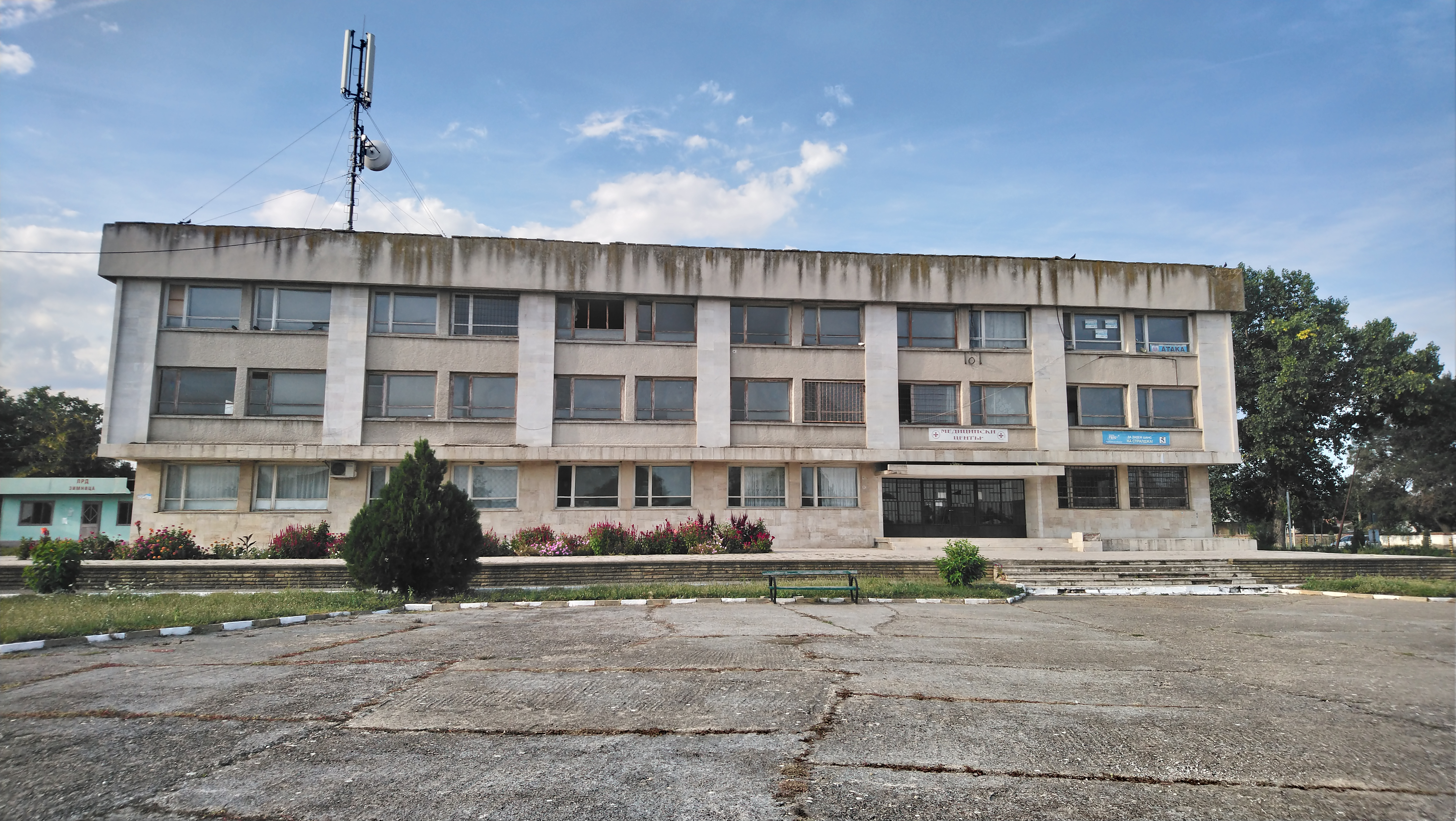 Zimnitsa (Yambol District): the building of the mayor's office and the medical centre